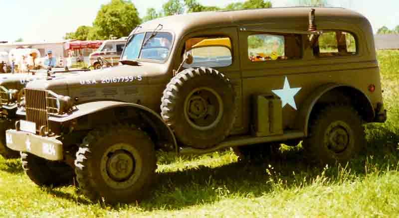 Dodge WC 53 Carryall